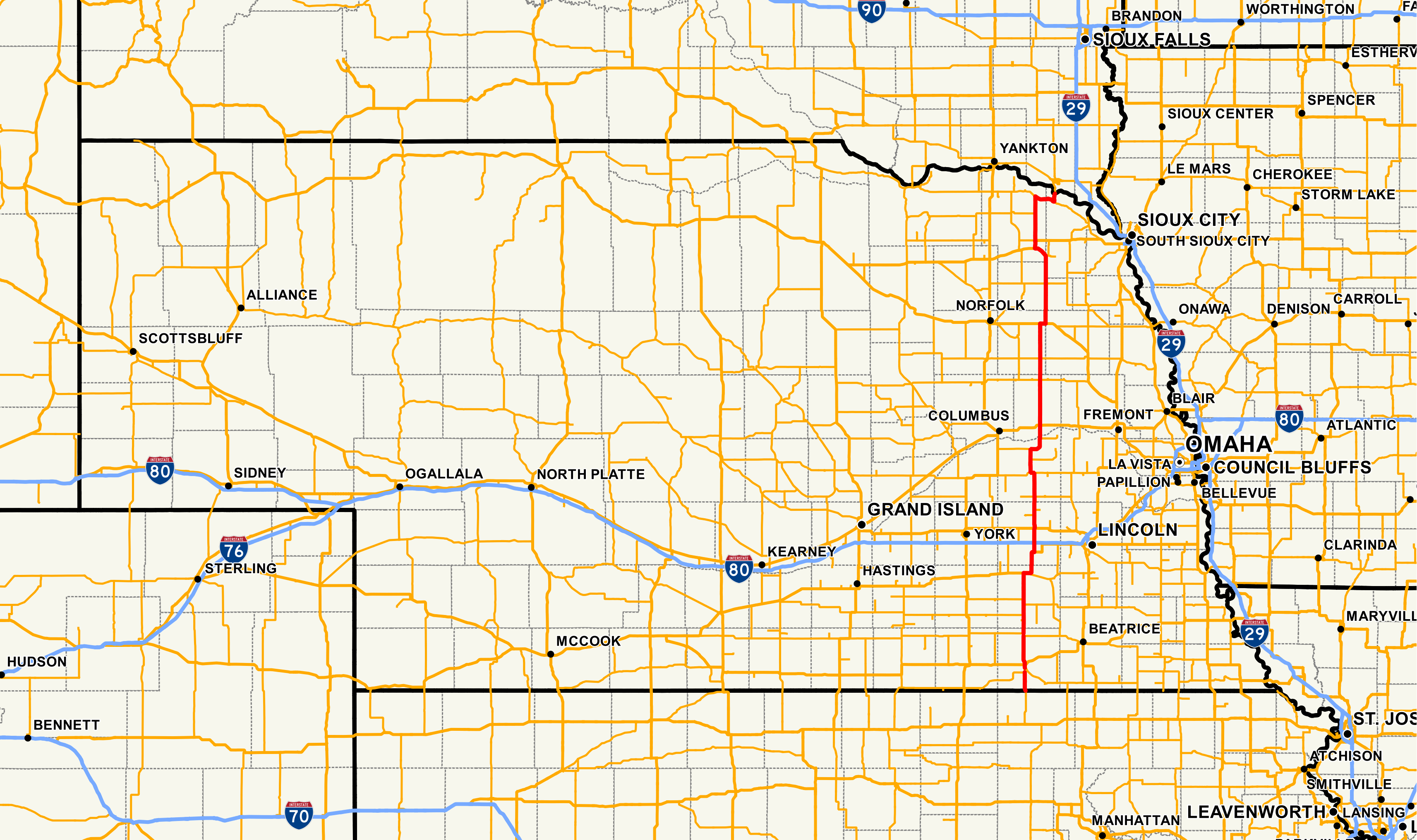 Map of Nebraska Highway 15 Data Sources: Nebraska Highways - - Dec 2016 Nebraska County Boundaries - - Dec 2016 Nebraska City Boundaries - - Dec 2016 This PNG graphic was created with QGIS